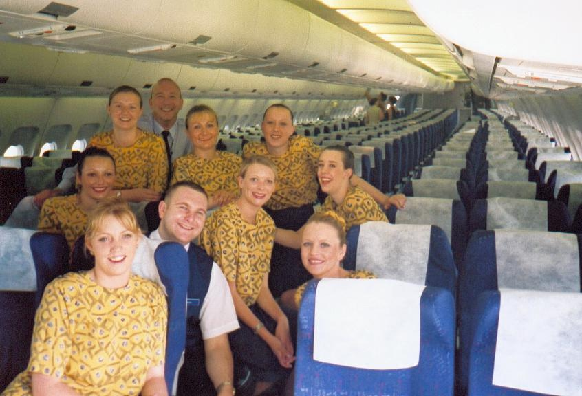 Prime Airlines Cabin Crew.